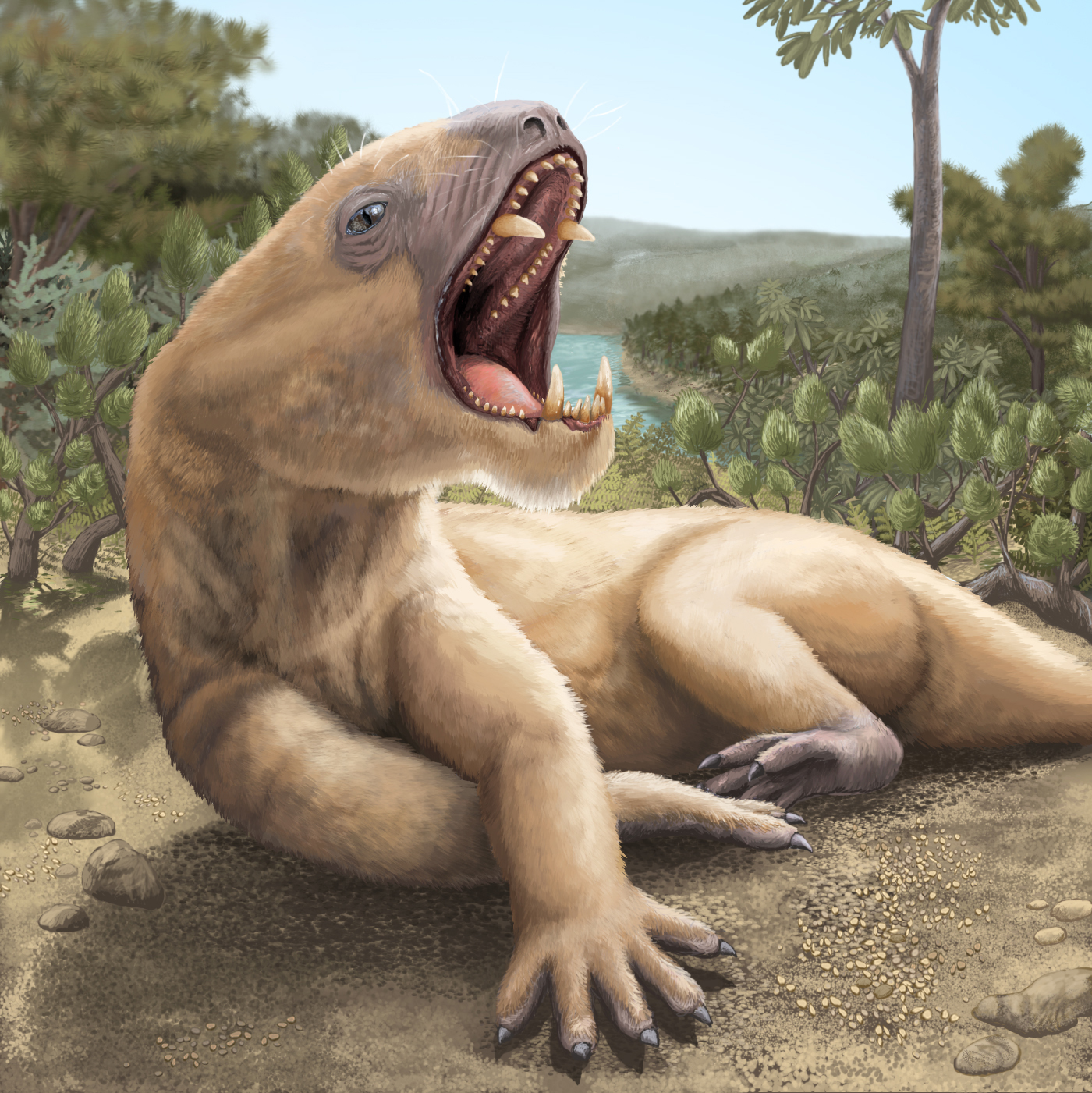 Life restoration of Purlovia maxima. Based on figures 8-10 of "Permian and Triassic therocephals (Eutherapsida) of Eastern Europe" by M. F. Ivakhnenko (Paleontological Journal 45 (9): 981-1144).